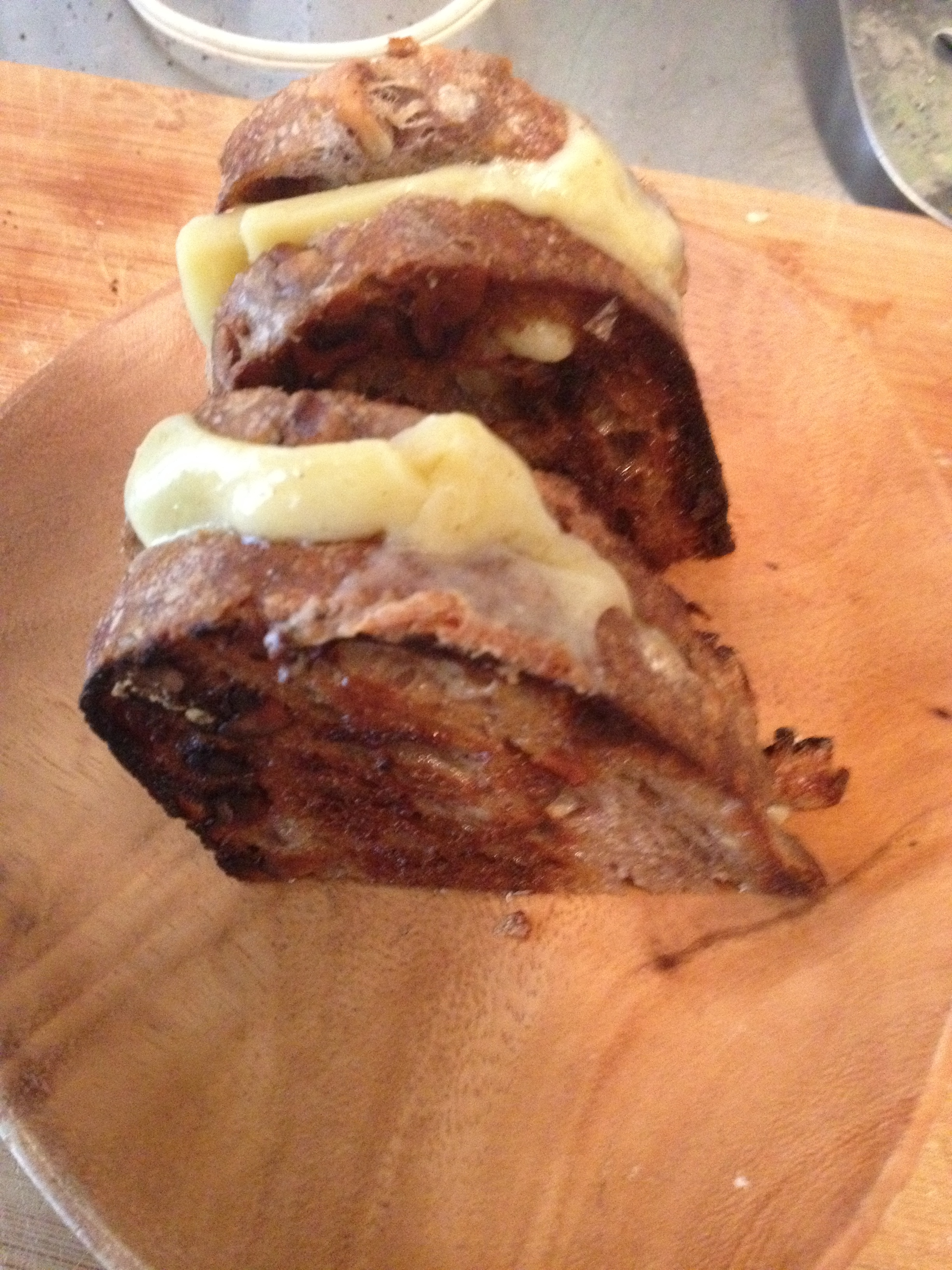 perfectly grilled grilled cheese